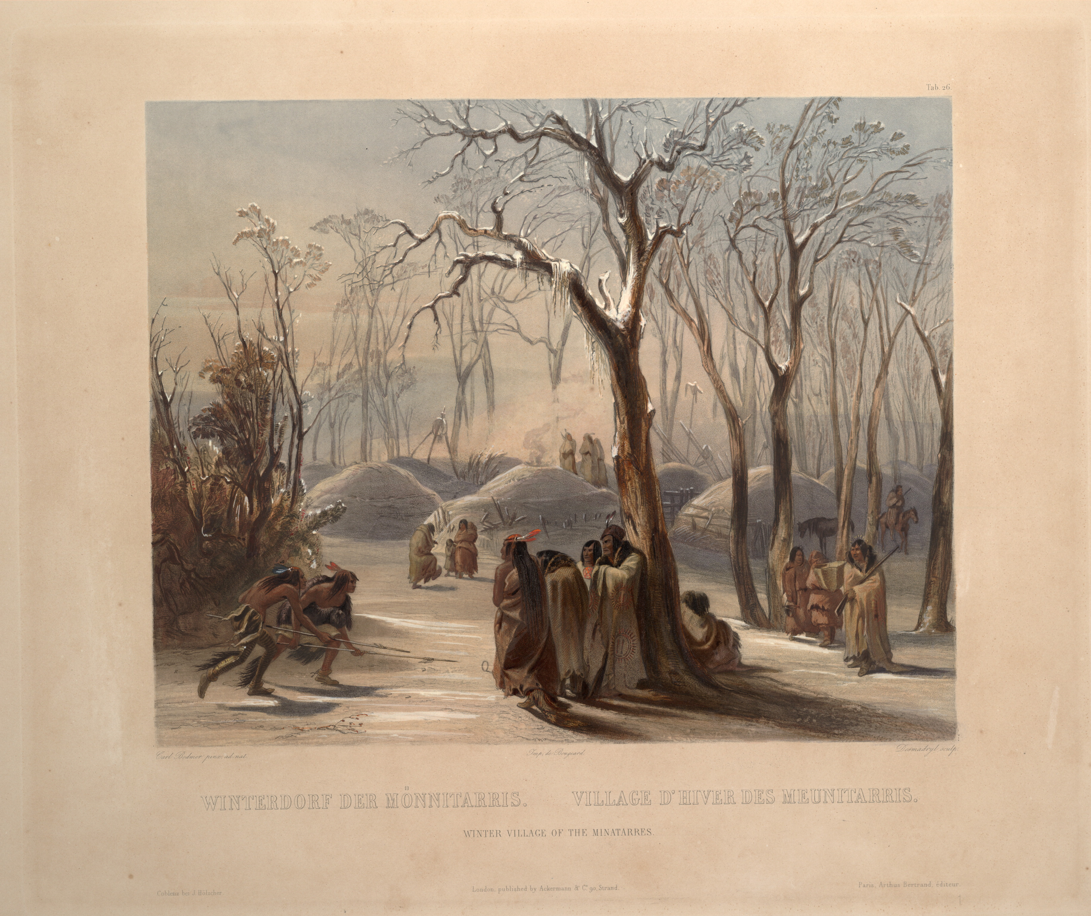 Winter village of the Minatarres